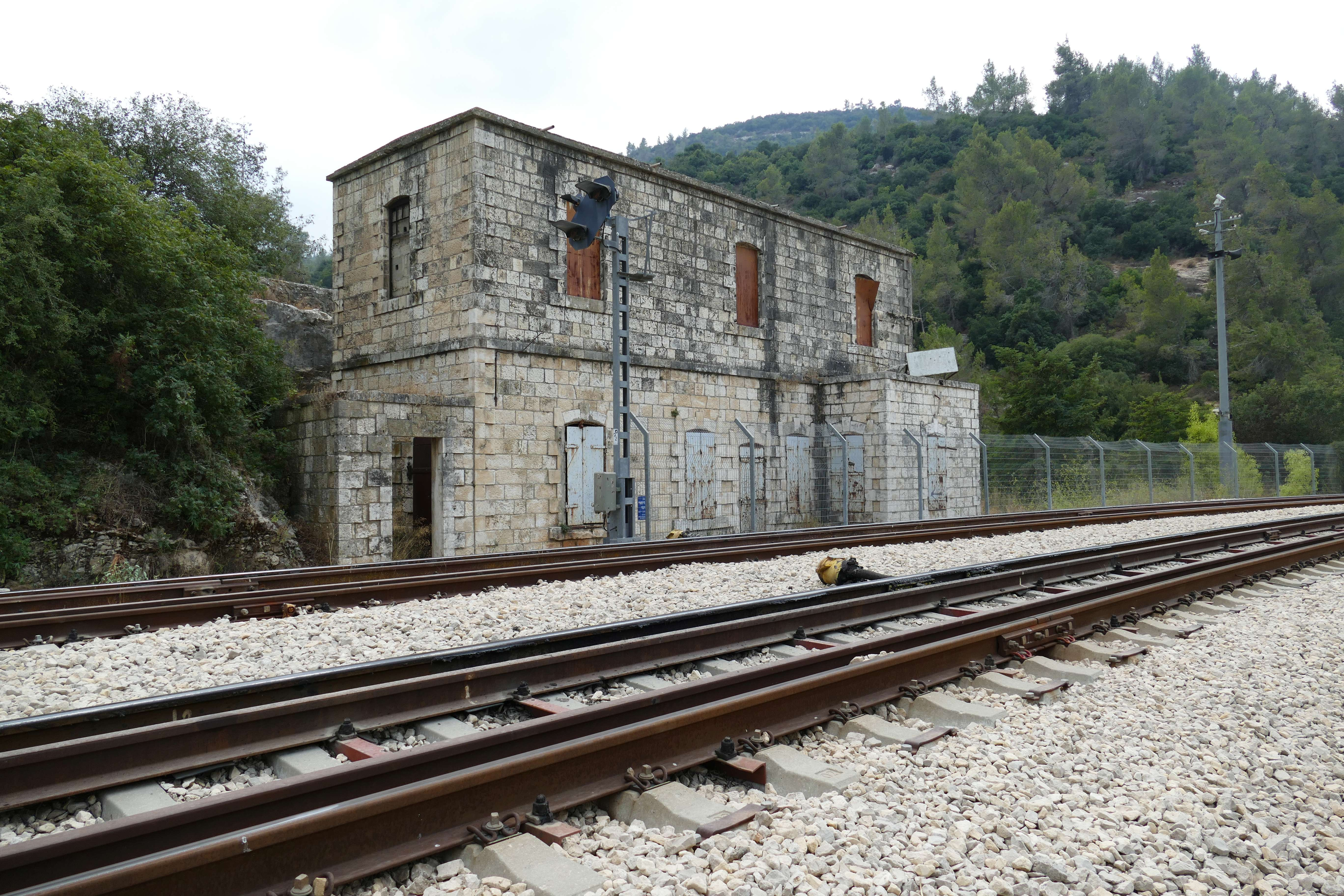 Deir ash-Sheikh / Bar Giora train station, Israel.